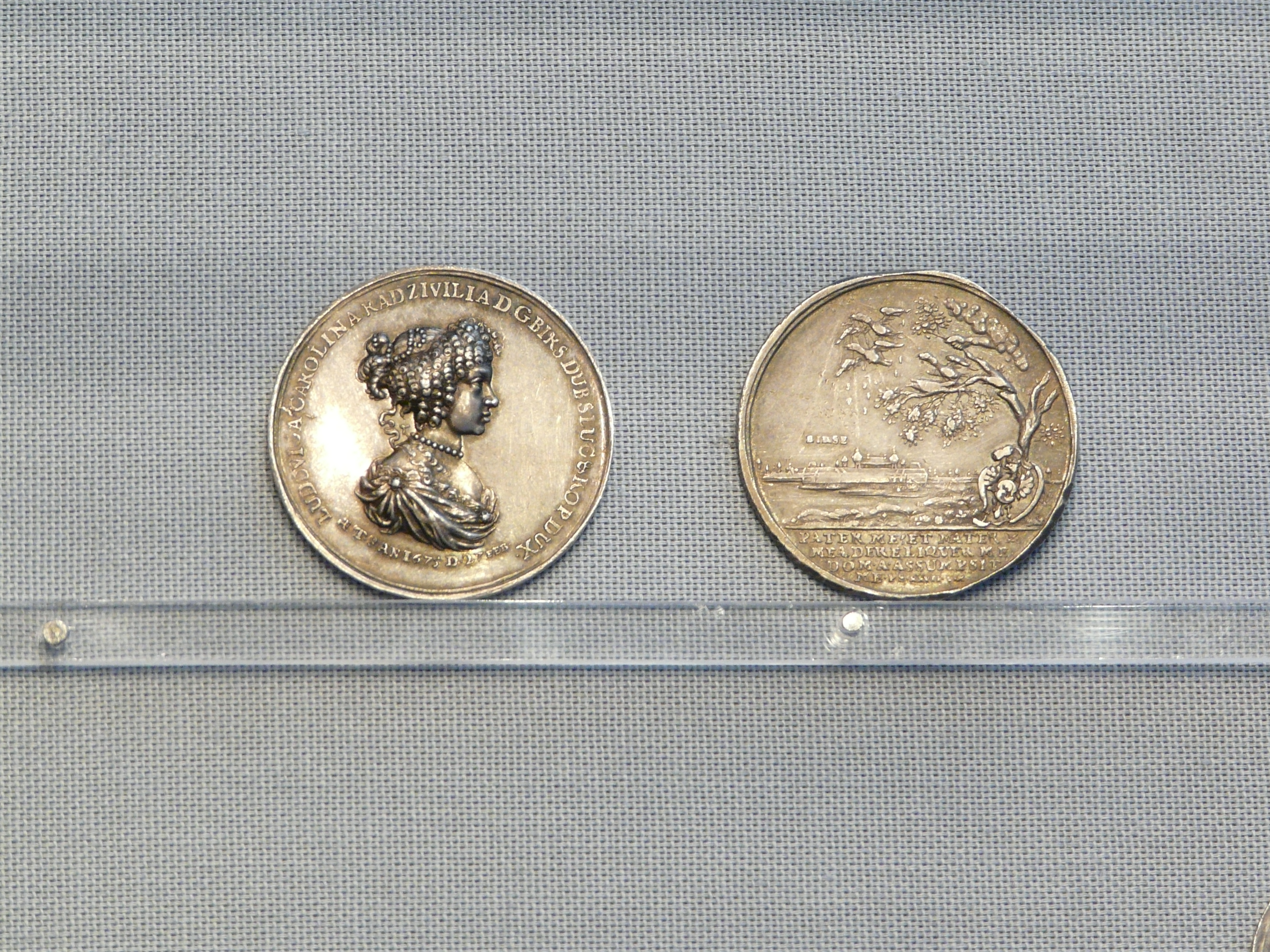 From the collection of the National Museum in Poznań. Ludwika Karolina Radziwiłł